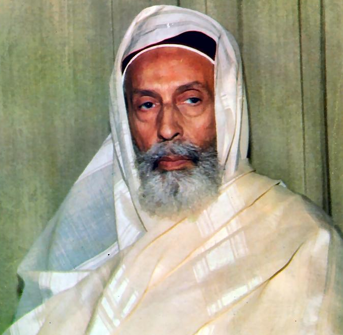 Photo of King Idris I of Libya, from the 1966 cover of Libya magazine